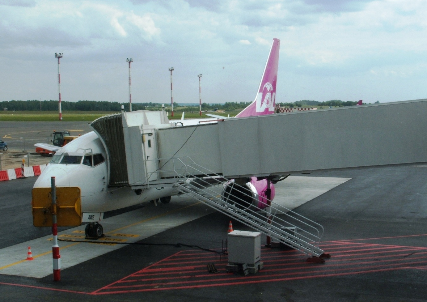 FlyLAL Boeing 737 (LY-AWE) at Vilnius airport